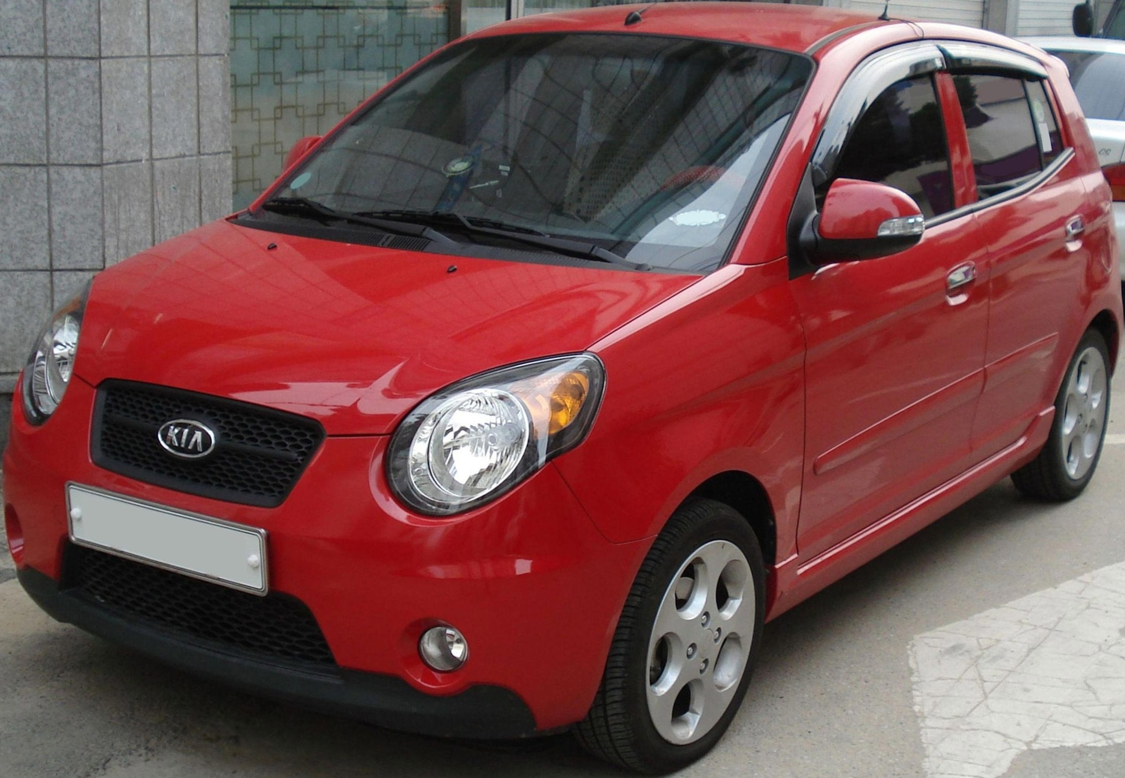 Kia New Morning